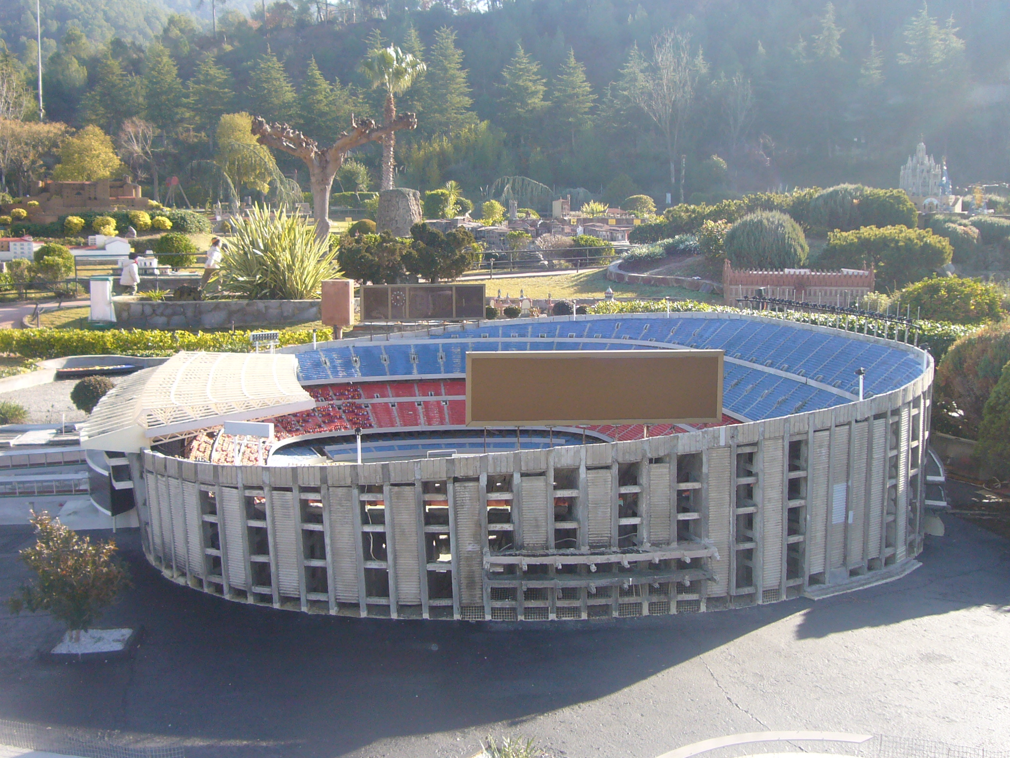 Scale model at the "Catalunya en Miniatura" miniature park : Camp Nou